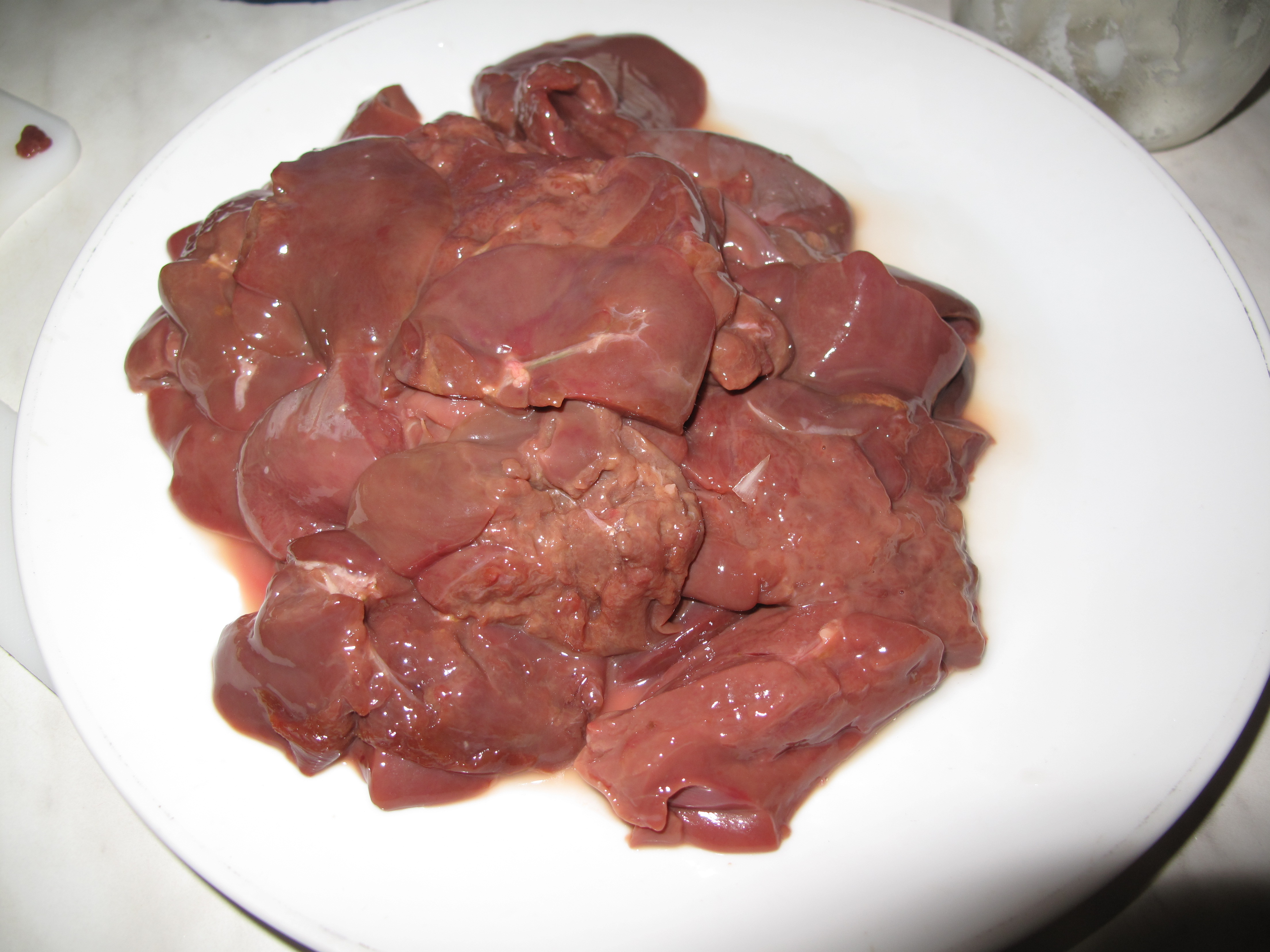 goose liver